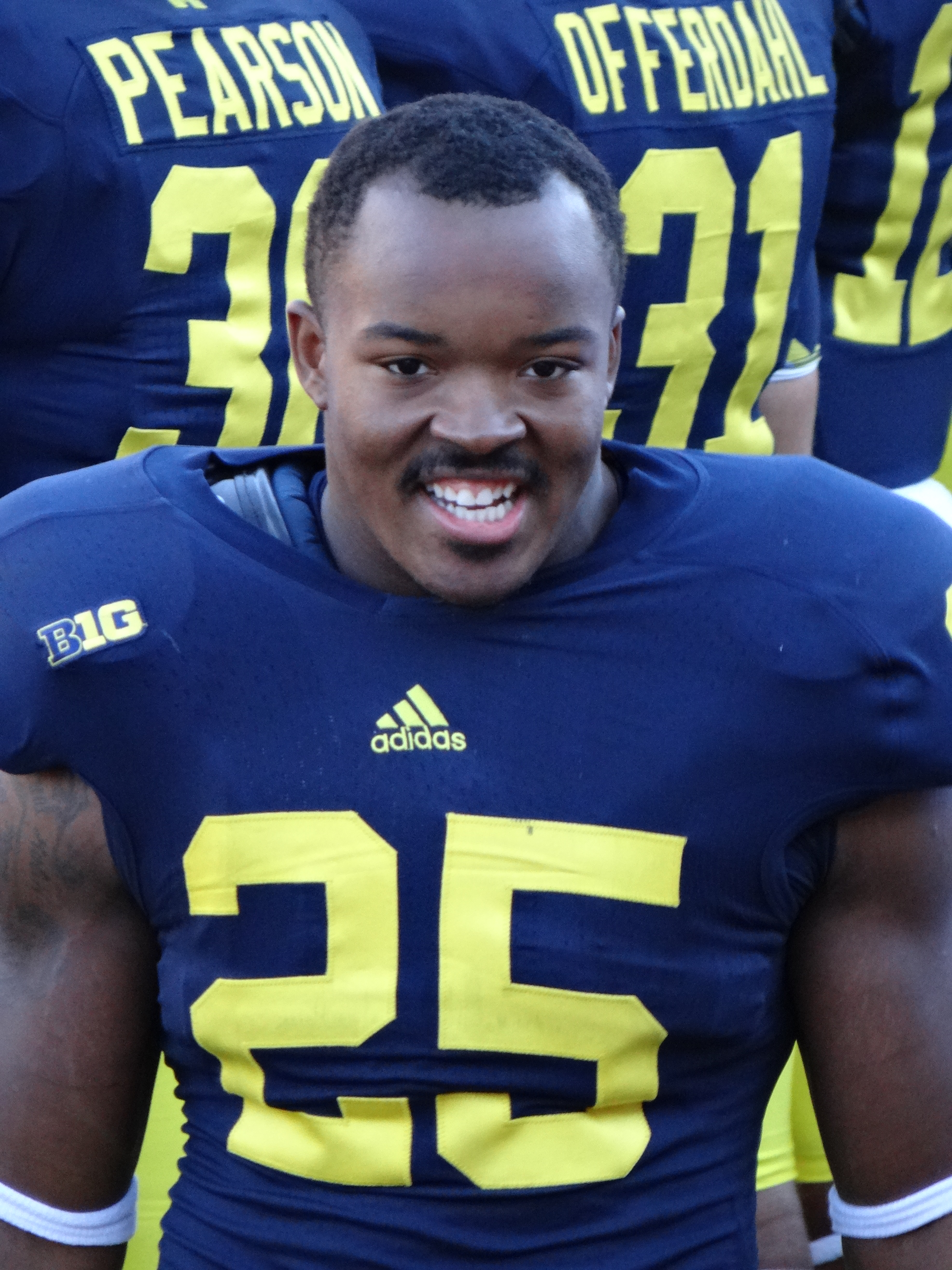 Kenny Demens on sidelines against UMass